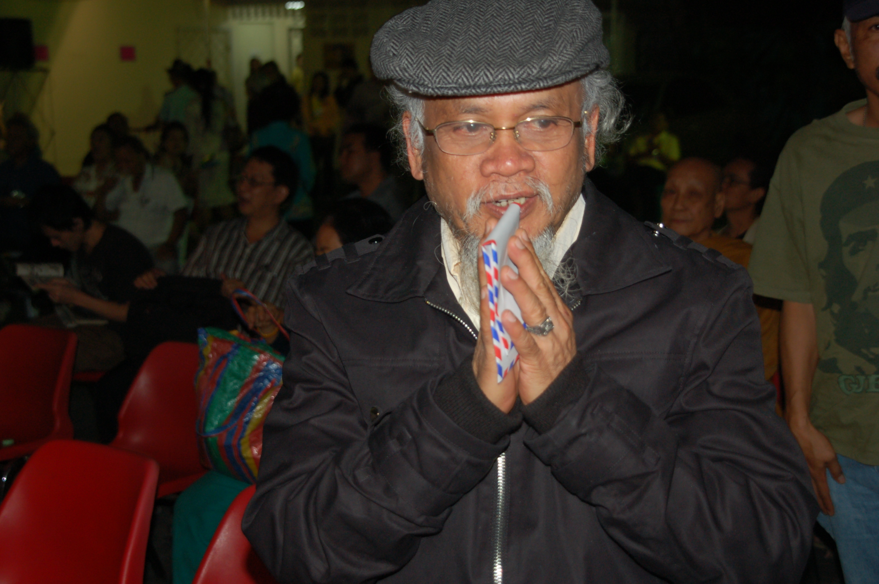 Somsak Kosaisuk at Ban Chao Phraya, Phra Arthit, Bangkok